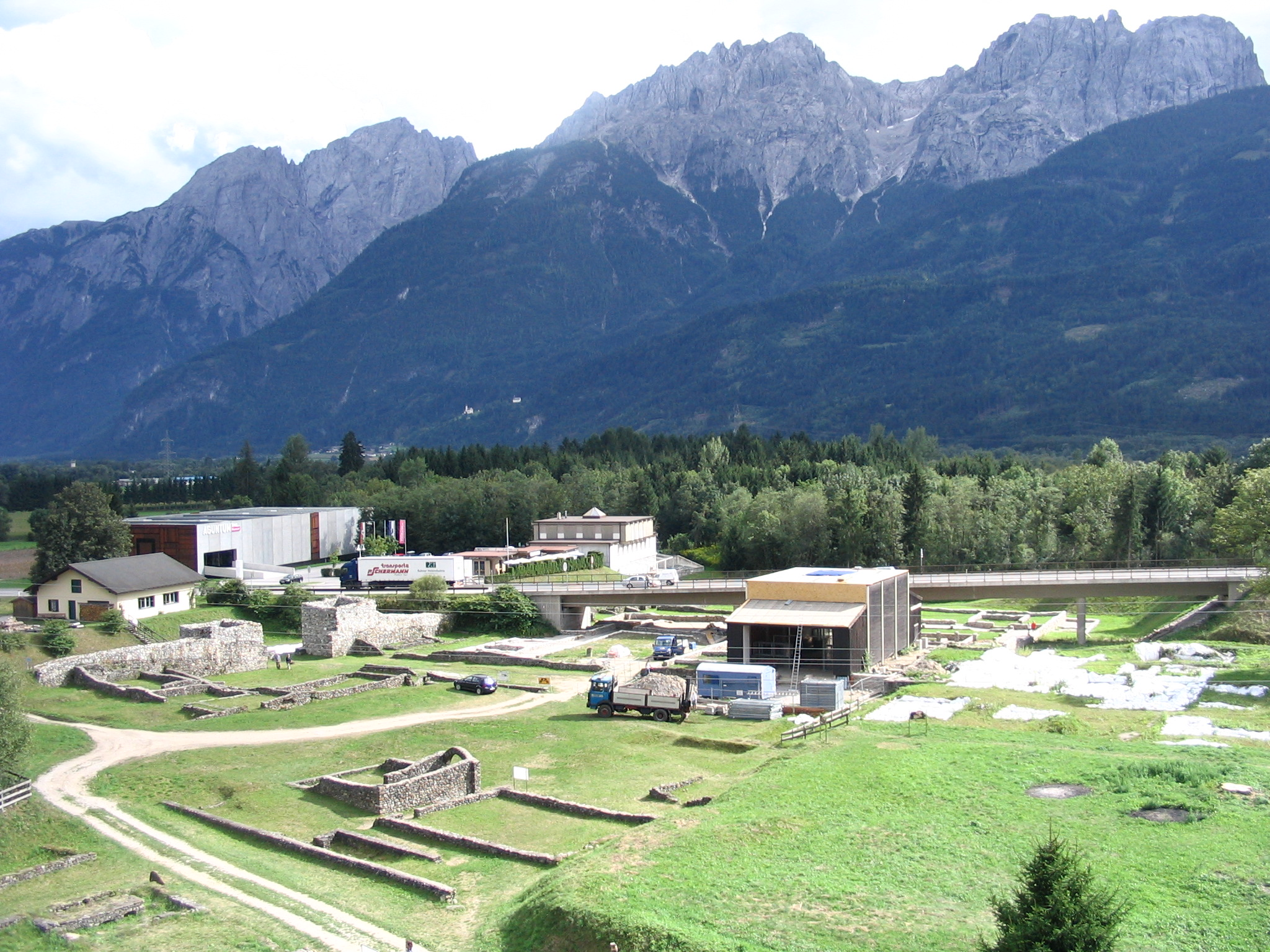 View from Aussichtsturm Aguntum